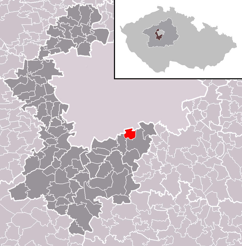 Location of Vestec municipality within Prague-West District and administrative area of Černošice as a Municipality with Extended Competence.